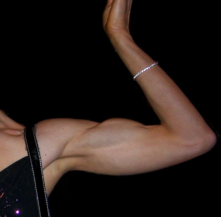 The split between the short head (front) and the long head (back) of the biceps muscle. (Kelly Lynn)